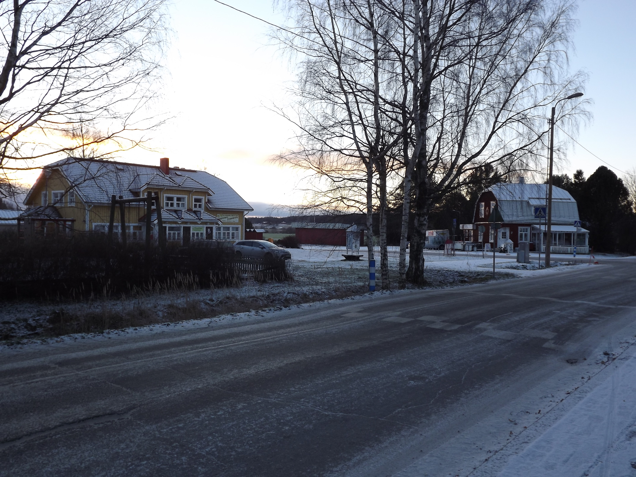 Centre of the Degerby village a morning in late November.